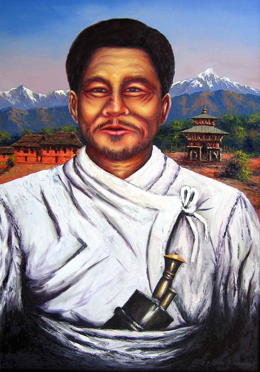 Lakhan Thapa Magar was the first martyr of Nepal when he was announced to be hung by Jung Bahadur Rana.